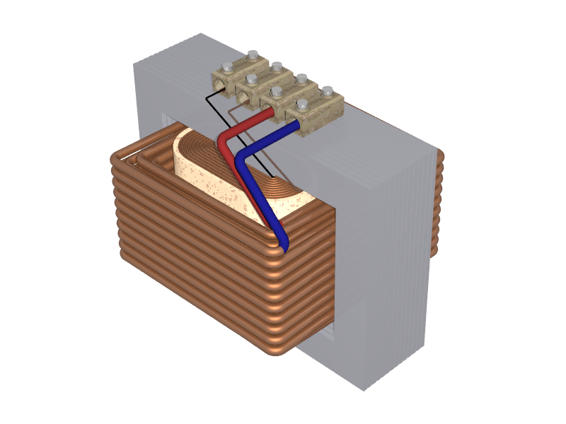 CGI computer rendered 800x600 image of a step-down welding transformer